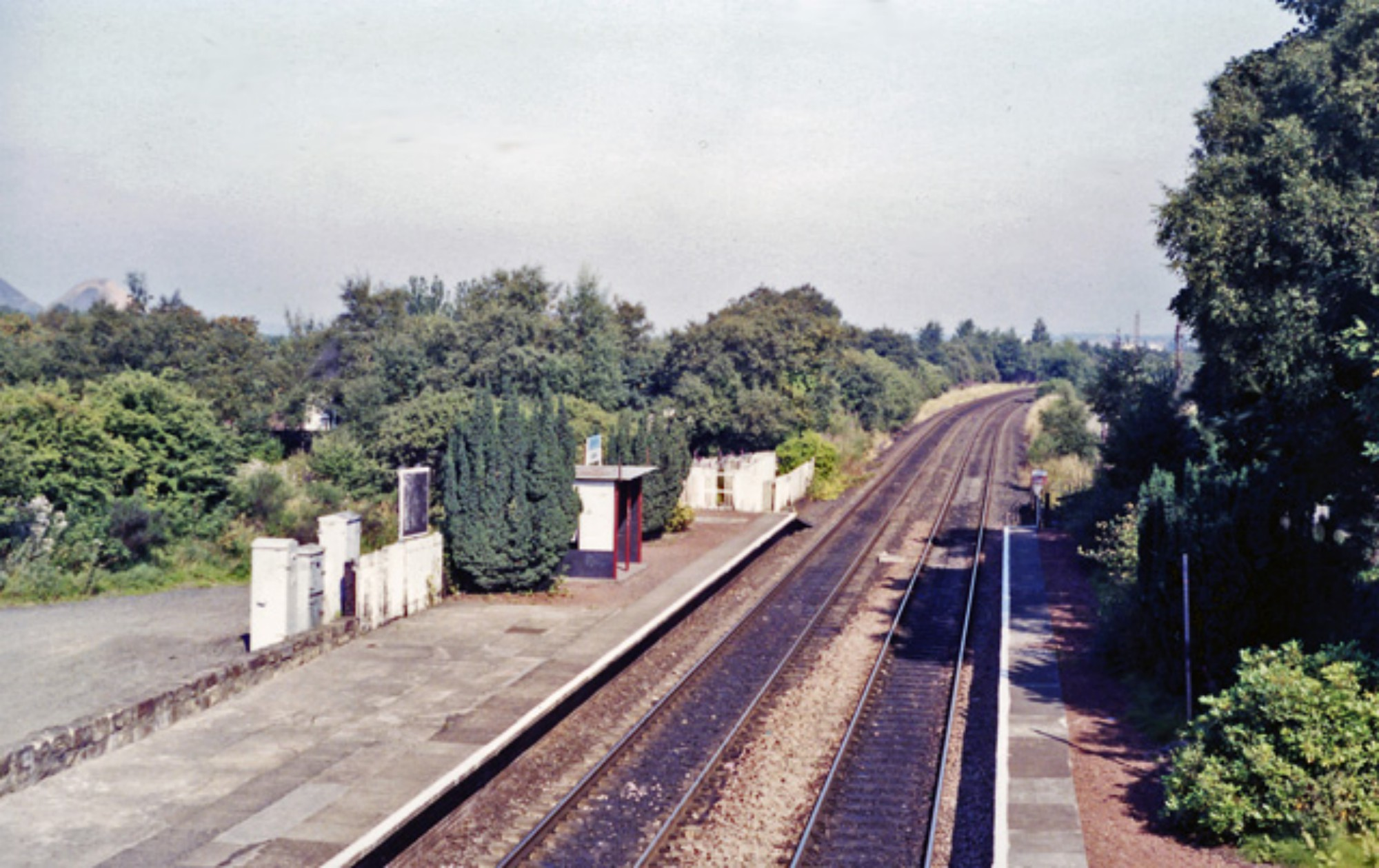 Addiewell Station, near to Addiewell, West Lothian, Great Britain. View ENE, towards Edinburgh; ex-CR Glasgow (Central) - Edinburgh (Princes St.) main line ((Since 6/9/65, when Edinburgh Princes St. Station was closed, trains have run to Waverley).